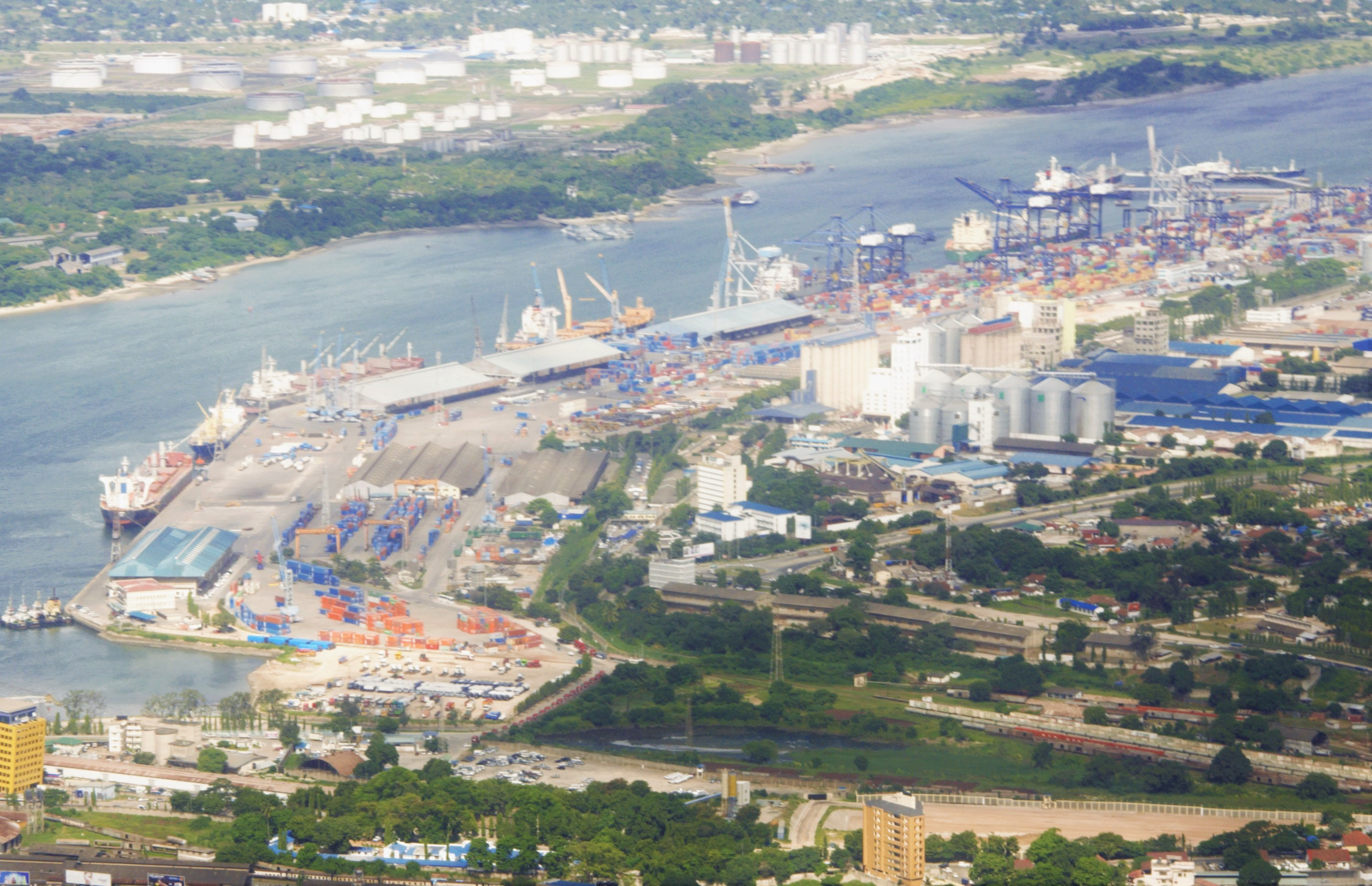 The detailed view of Dar es Salaam Port. This photo has been taken by Prof. Chen Hualin.